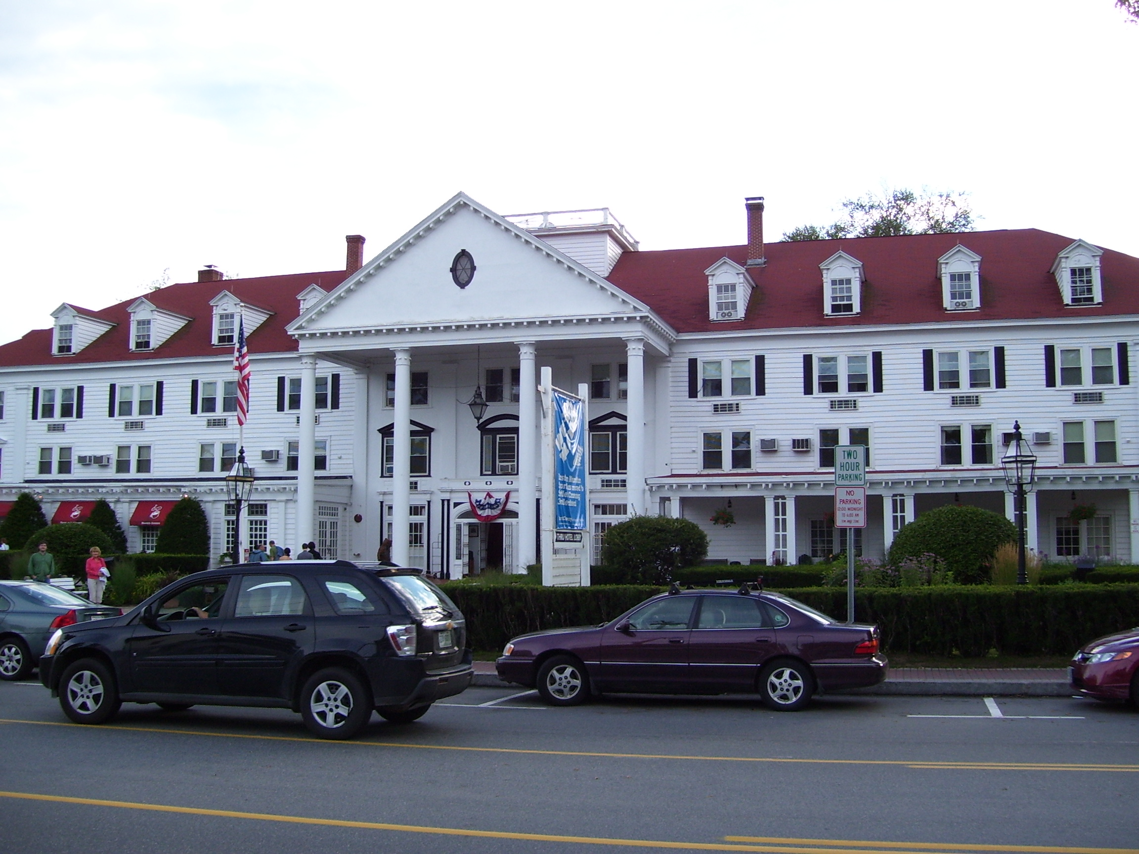 Eastern Slope Inn — in North Conway, New Hampshire. "My 2008 photo."